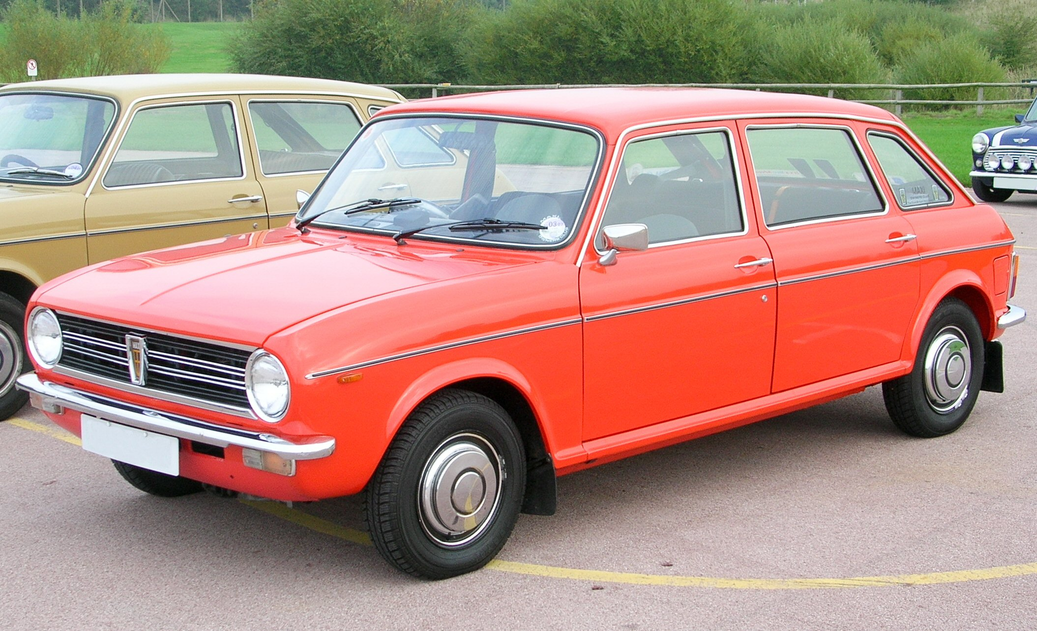 A 1980 Austin Maxi L. Photographed at the Alec Issigonis centenary rally at the Heritage Motor Centre, Gaydon, UK.